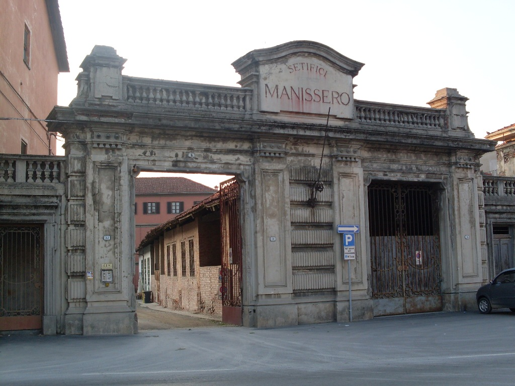 Setificio Manissero,façade